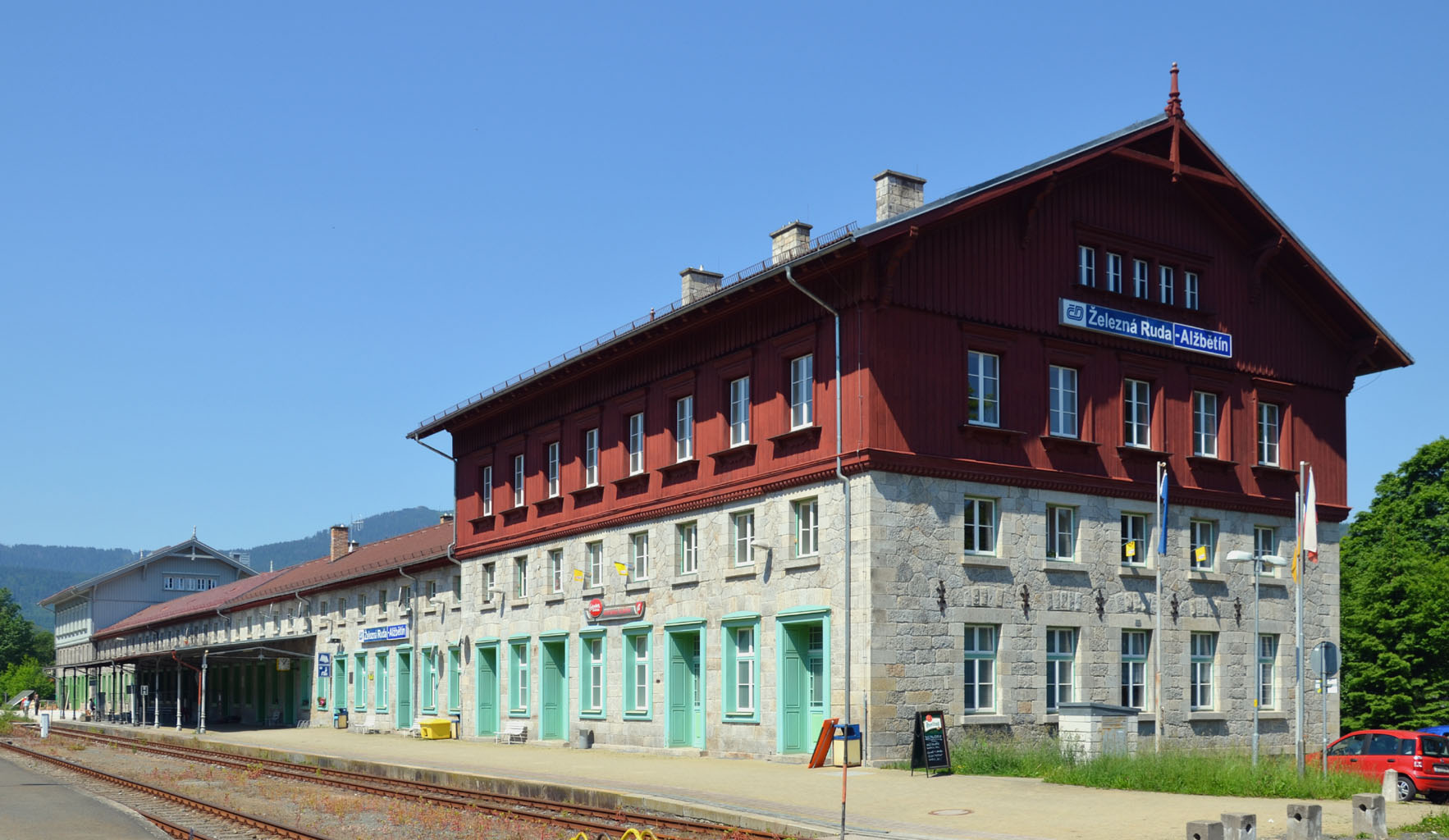 Bayerisch Eisenstein / Železná Ruda-Alžbětín train station, Czech wing in the front, German wing in the background.